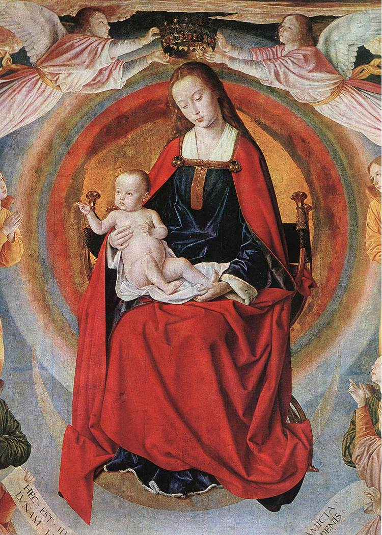 detail of central panel: Madonna enthroned with Saints